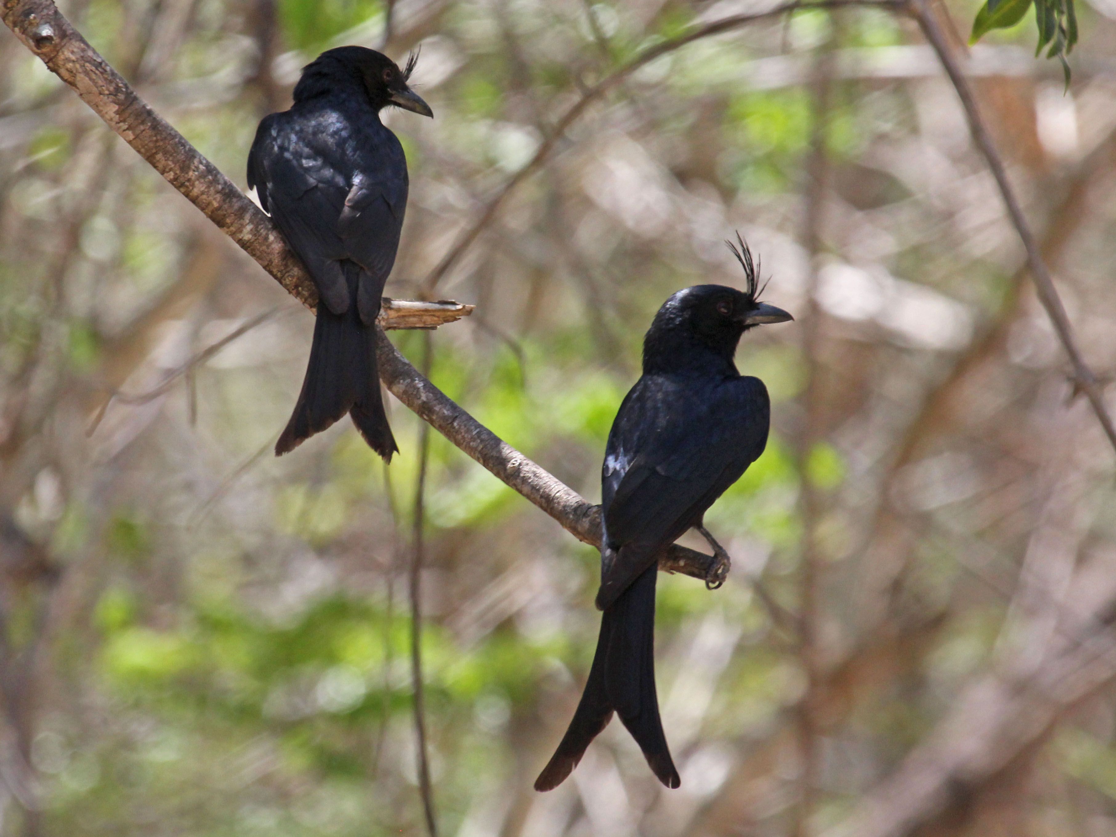 Crested Drongo (Dicrurus forficatus) - Madagascar